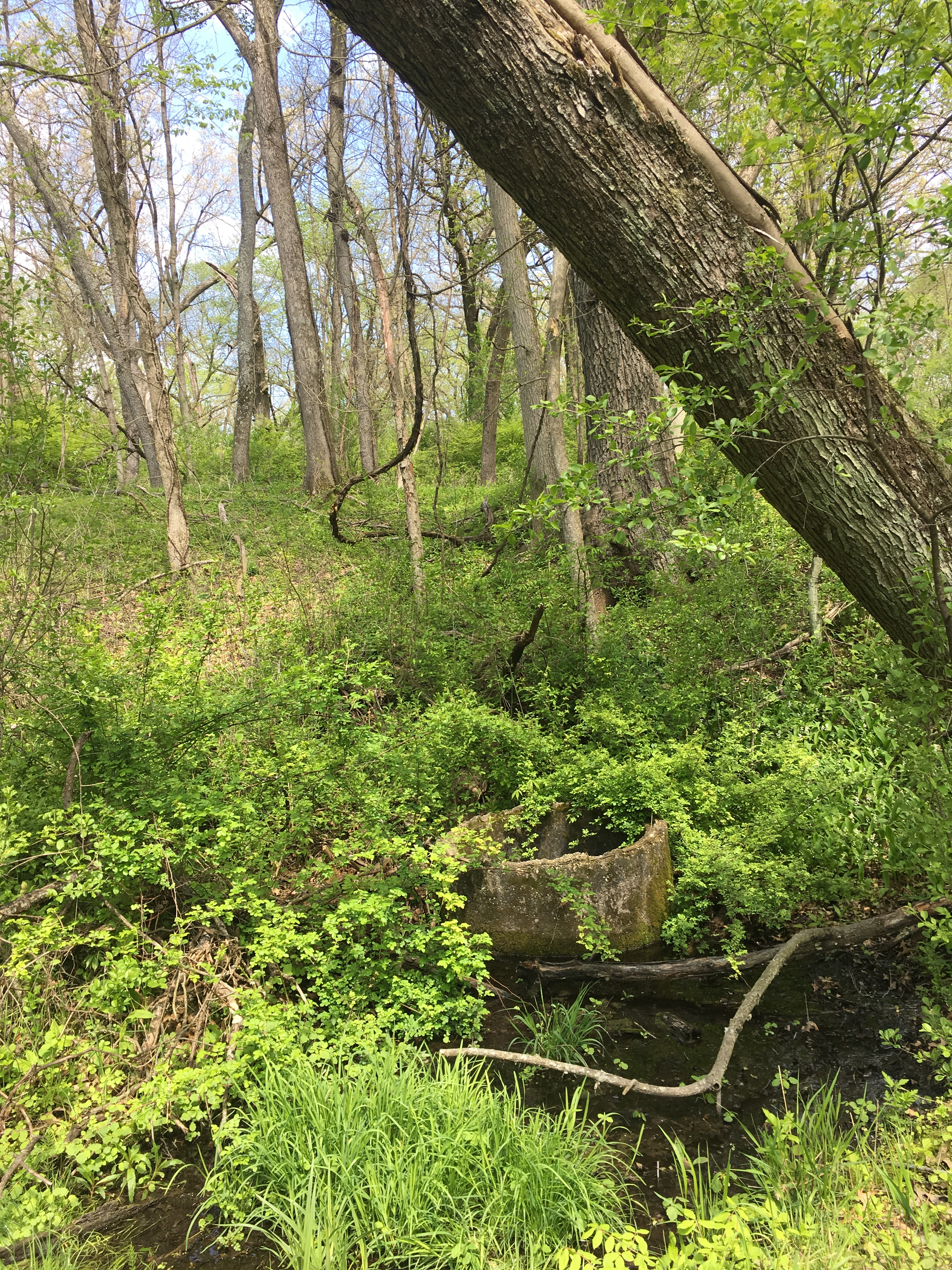 The cistern at Chamberlin Springs, hypothesized to have been the location of the water collection.